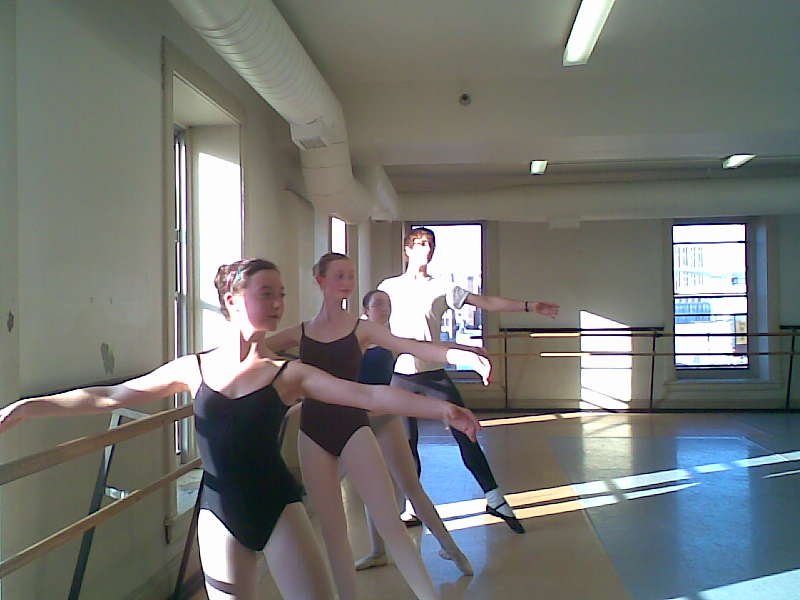 Dance Class @ Hennepin Center For the Arts. Dancers front-to-back: Aliya, MacCalister, Isabelle and Collin